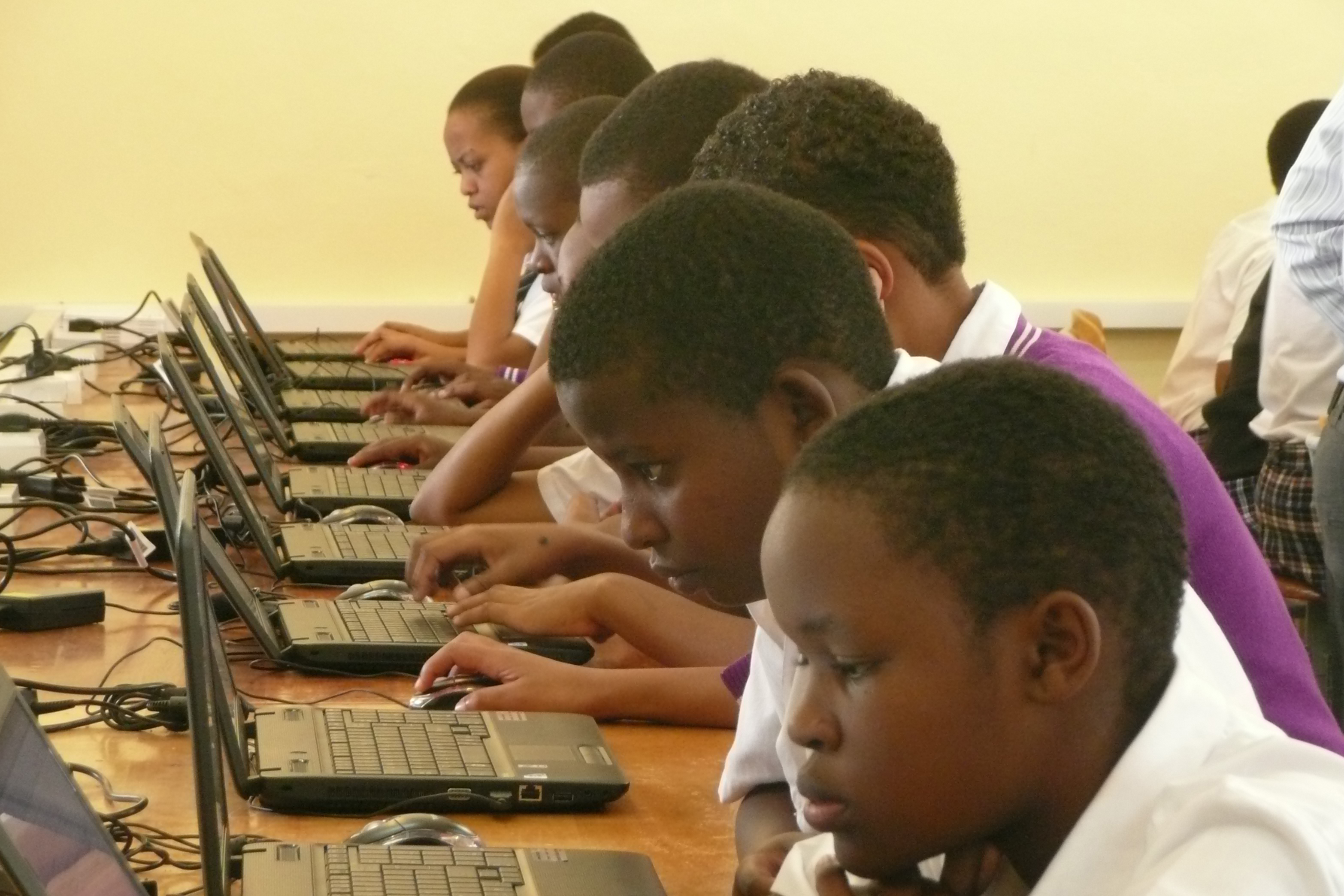 Computer classes in Sanya Juu village, Kilimanjaro region, Tanzania